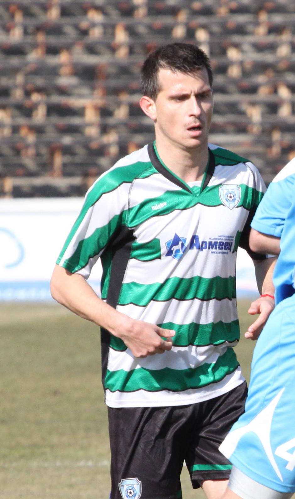 Aleksandar Dragomirov Aleksandrov (Bulgarian: Александър Драгомиров Александров) (born April 13, 1986) is a football defender from Bulgaria currently playing for Cherno More Varna